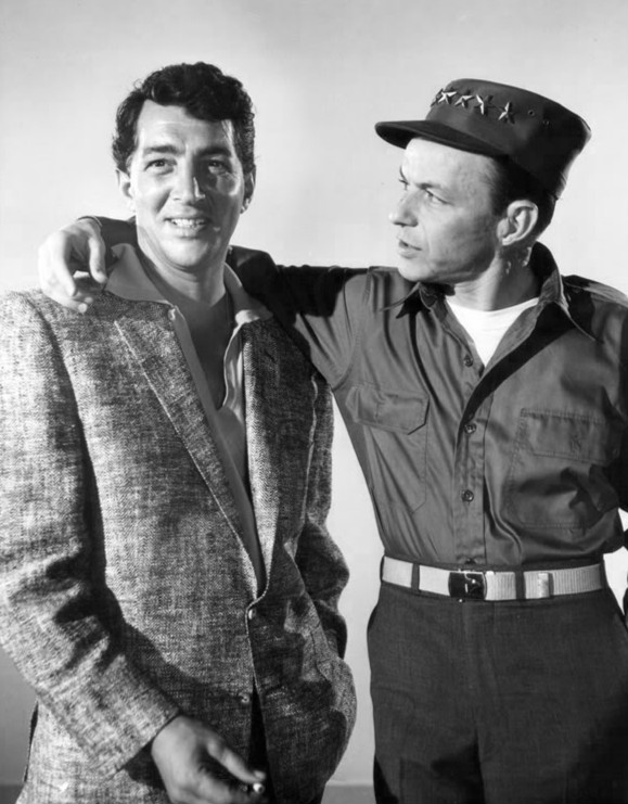 Publicity photo of Dean Martin and Frank Sinatra from The Dean Martin Show.